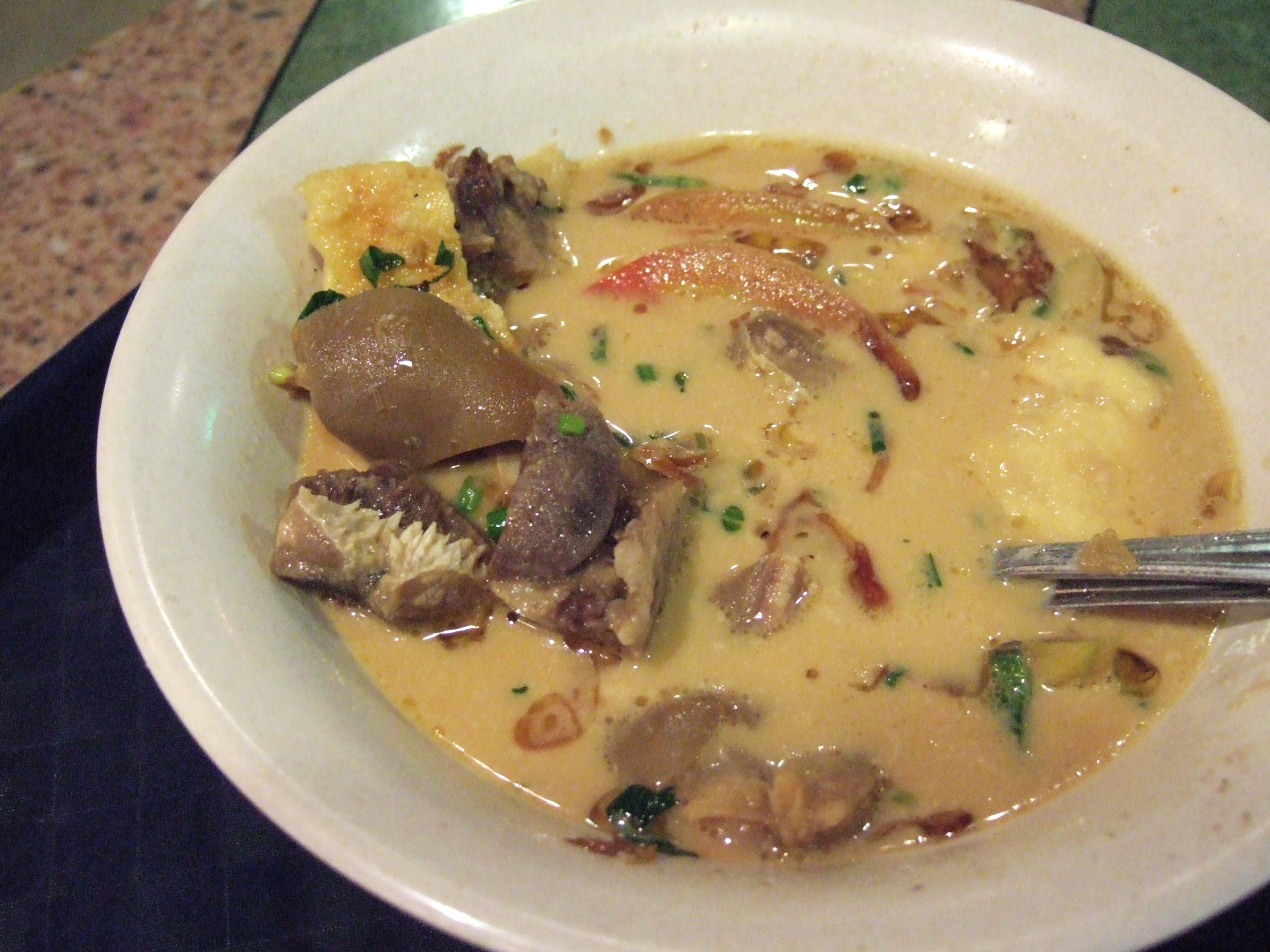 Betawi style mutton soup